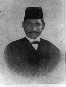 Athanasios Ikonomou